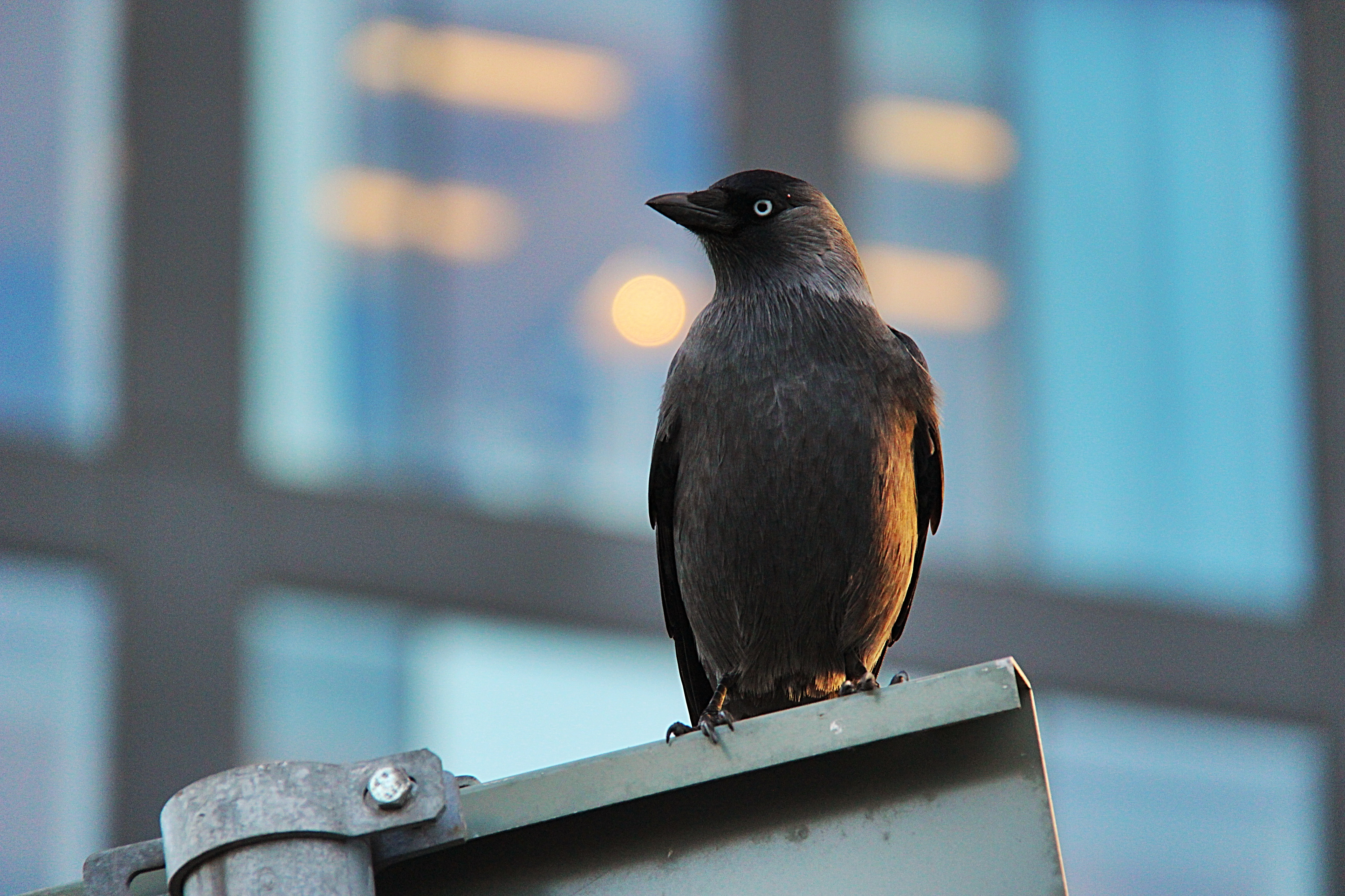 Citybird